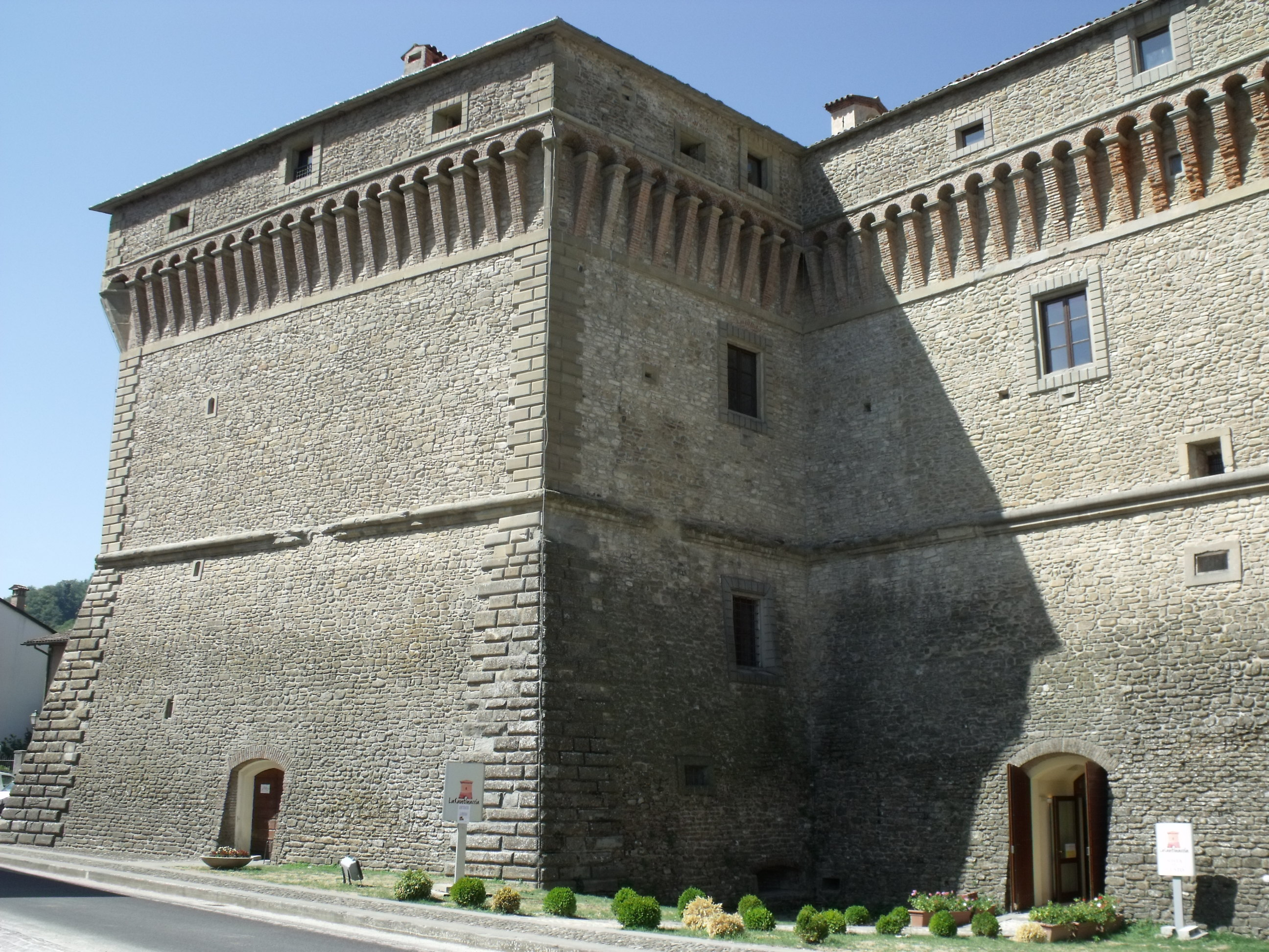 Palazzo Alidosi in Castel del Rio, Province of Bologna, Emilia-Romagna, Italy